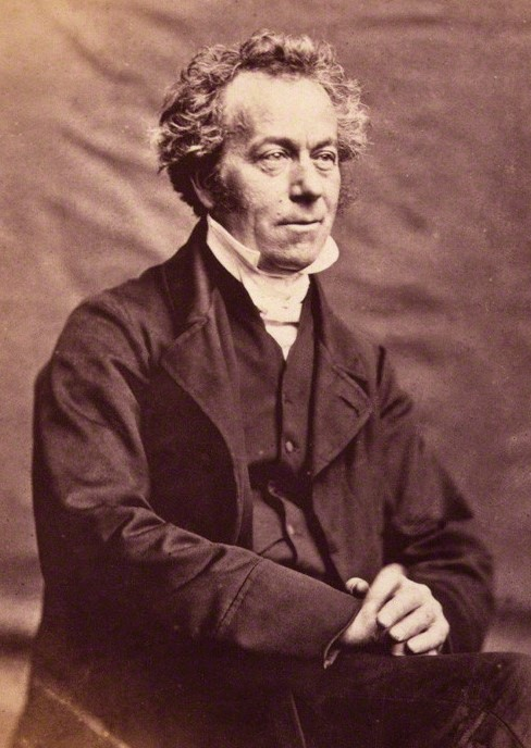 William Jacobson, Regius Professor of Divinity at Oxford, subsequently Bishop of Chester